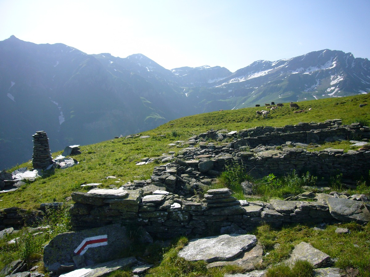 from right: Valserhorn 2886, Taellihorn 2820, Baerenhorn 2929 and far left Teischer 2688 from Selva Alp, Vals, Graubuenden